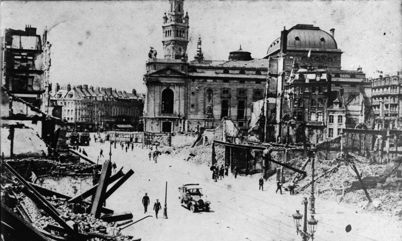 1916, destructions in Lille.